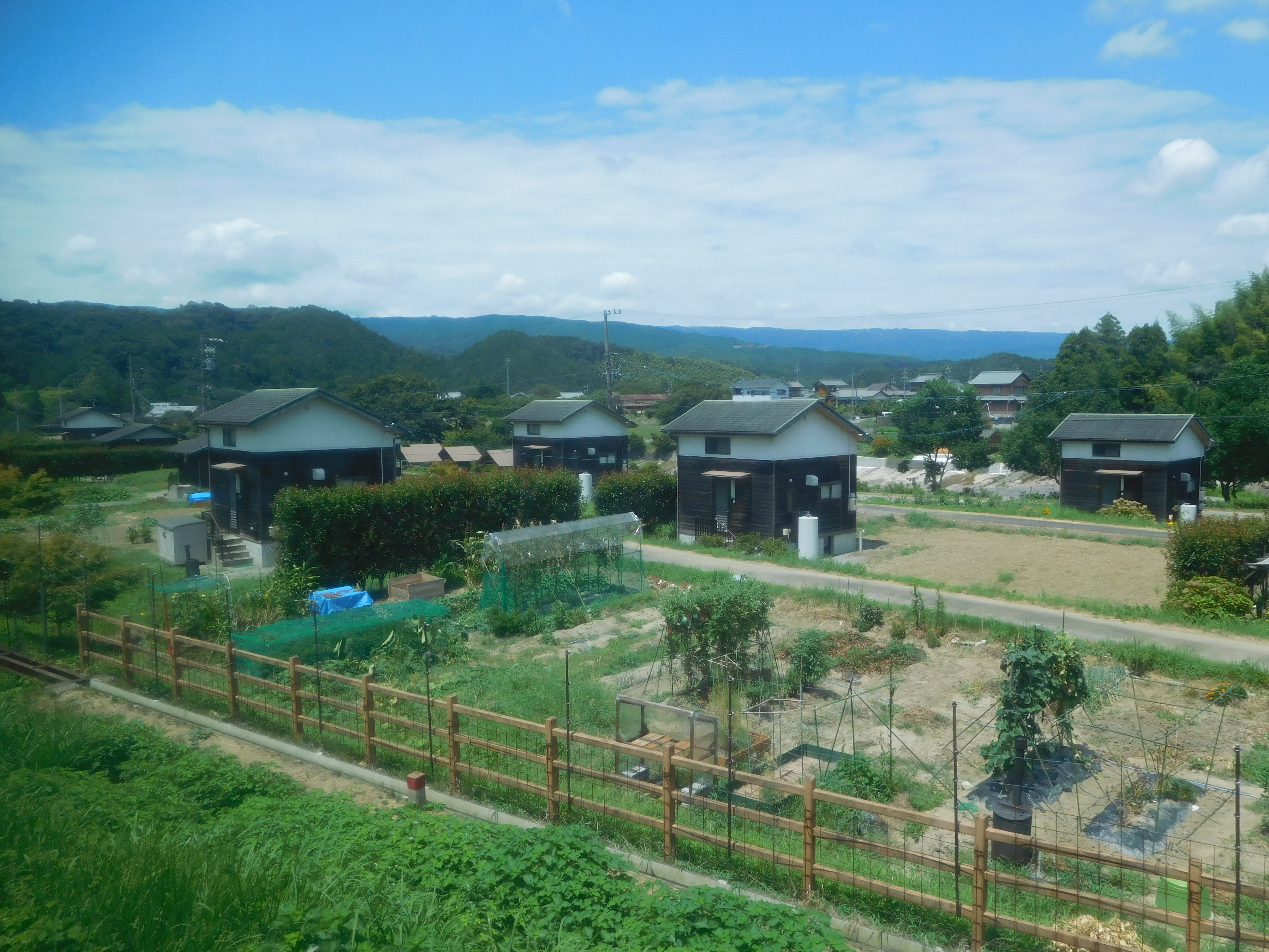 This is River Park Mami, an allotment garden in Tsu, Mie, Japan.